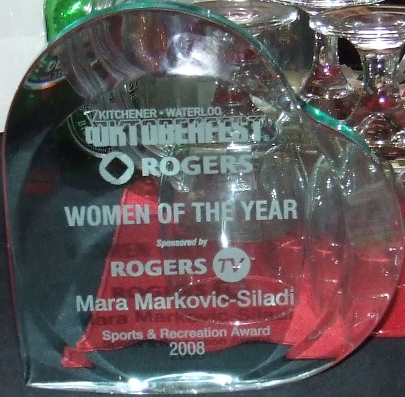 Kitchener-Waterloo, Ontario Canada, Women of the Year 2008 Awards